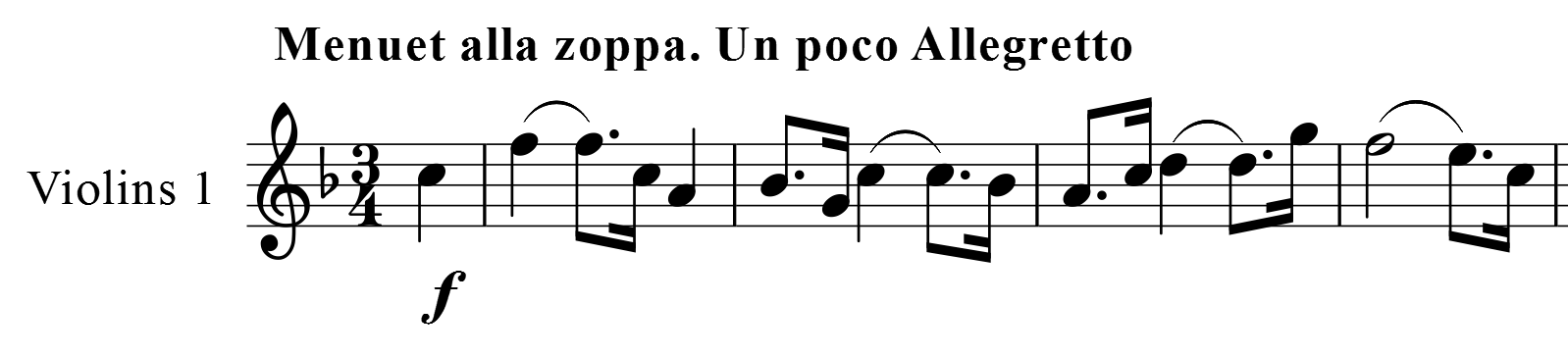 Joseph Haydn, Symphony No. 58, third movement, bar 1-4